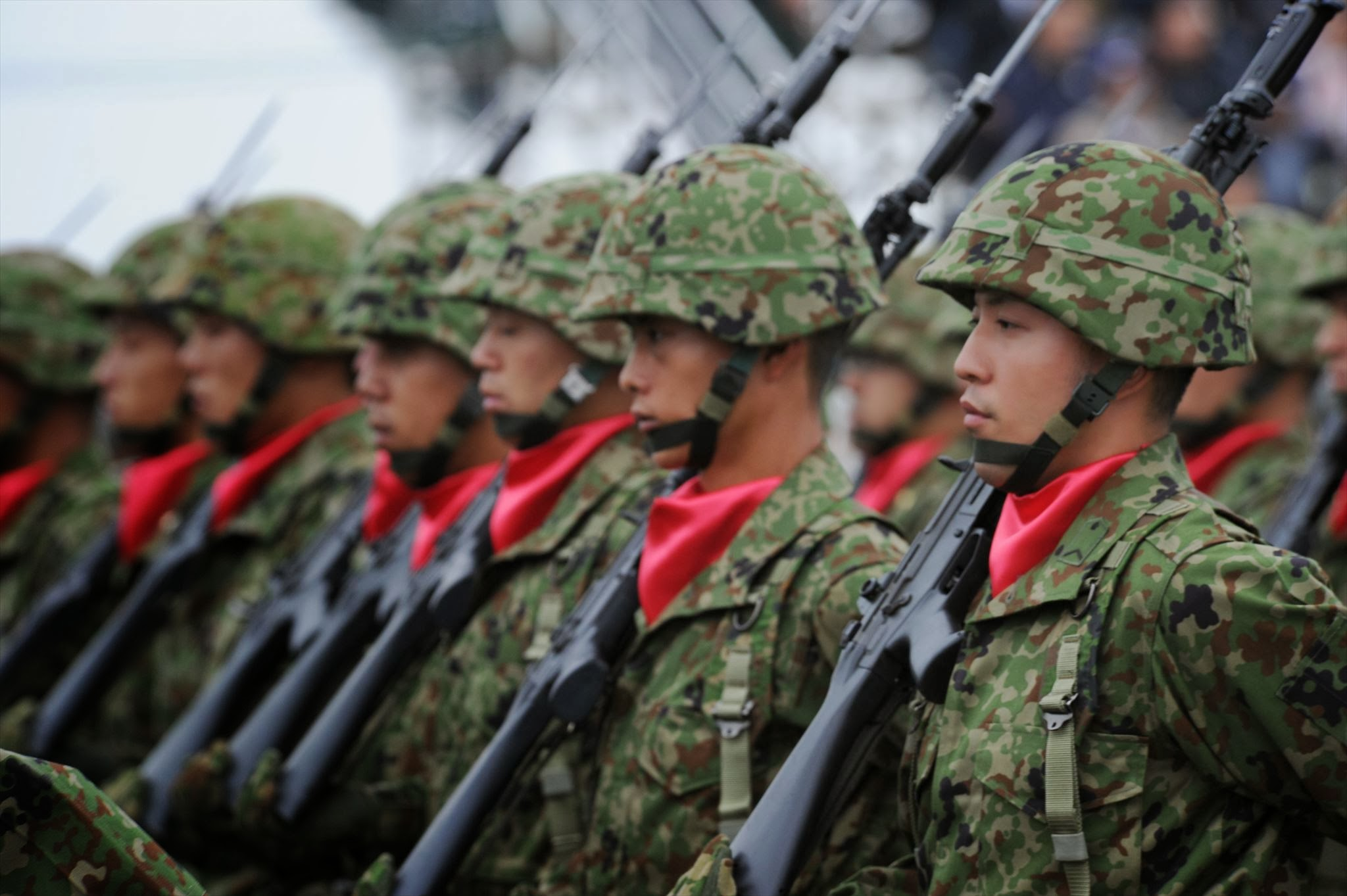 Title 11_06_022_R.JPG Album 自衛隊記念日 観閲式(Parade of Self-Defense Force) 平成22年度自衛隊記念日 観閲式(Parade of Self-Defense Force)